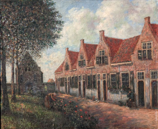 Painting by Anton van Teijn: Heilige Geesthofje in Naaldwijk (the Netherlands)